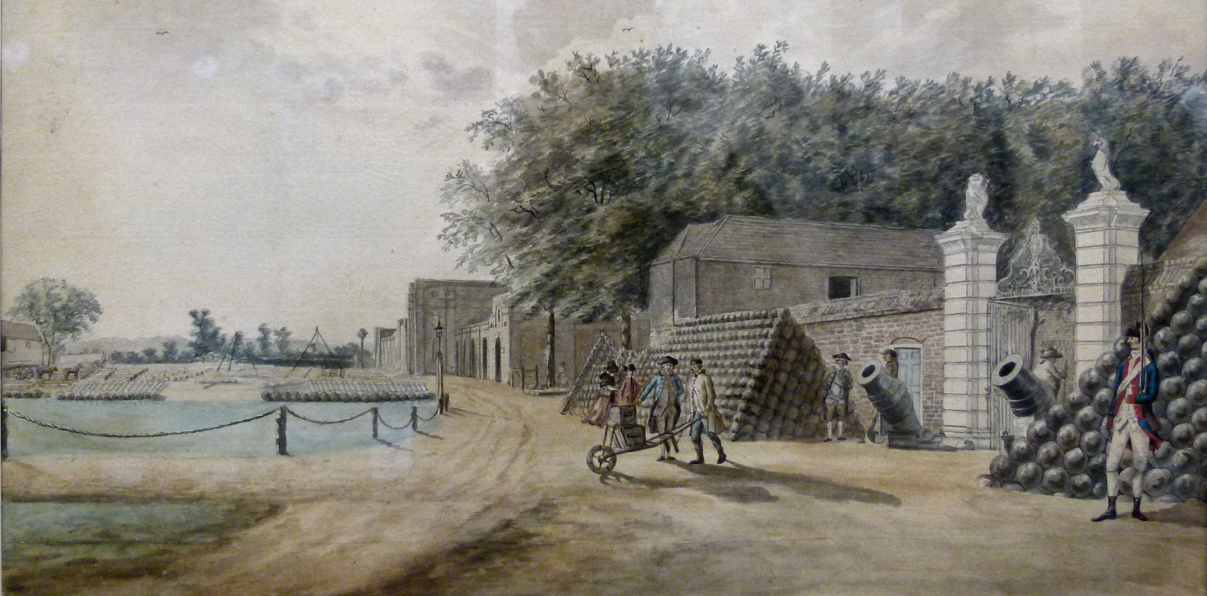 The Royal Laboratory Gates at the Royal Arsenal in Woolwich, watercolour by James Cockburn, 1795. Part of a semi-permanent exhibition dedicated to the Royal Artillery and Royal Military Academy in Greenwich Heritage Centre, Woolwich, south east London, UK.